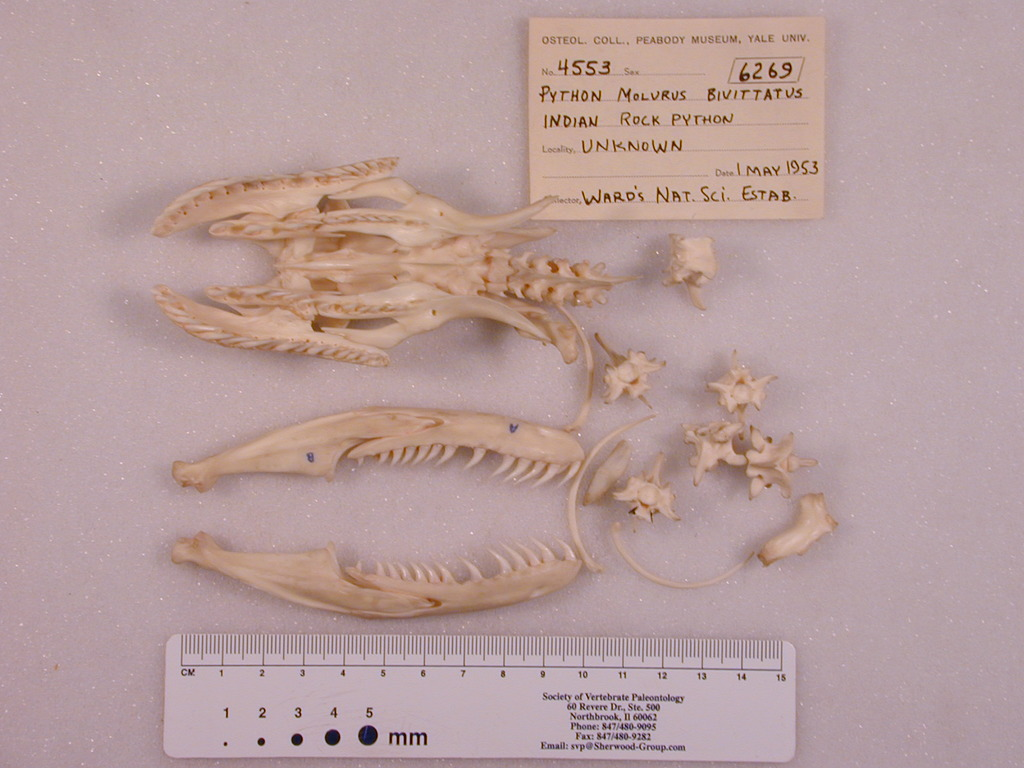 Skull, including lower jaw, of a python (YPM HERR 010752): photo by Taylor, N. Courtesy of the Peabody Museum of Natural History, Division of Vertebrate Zoology, Yale University; .